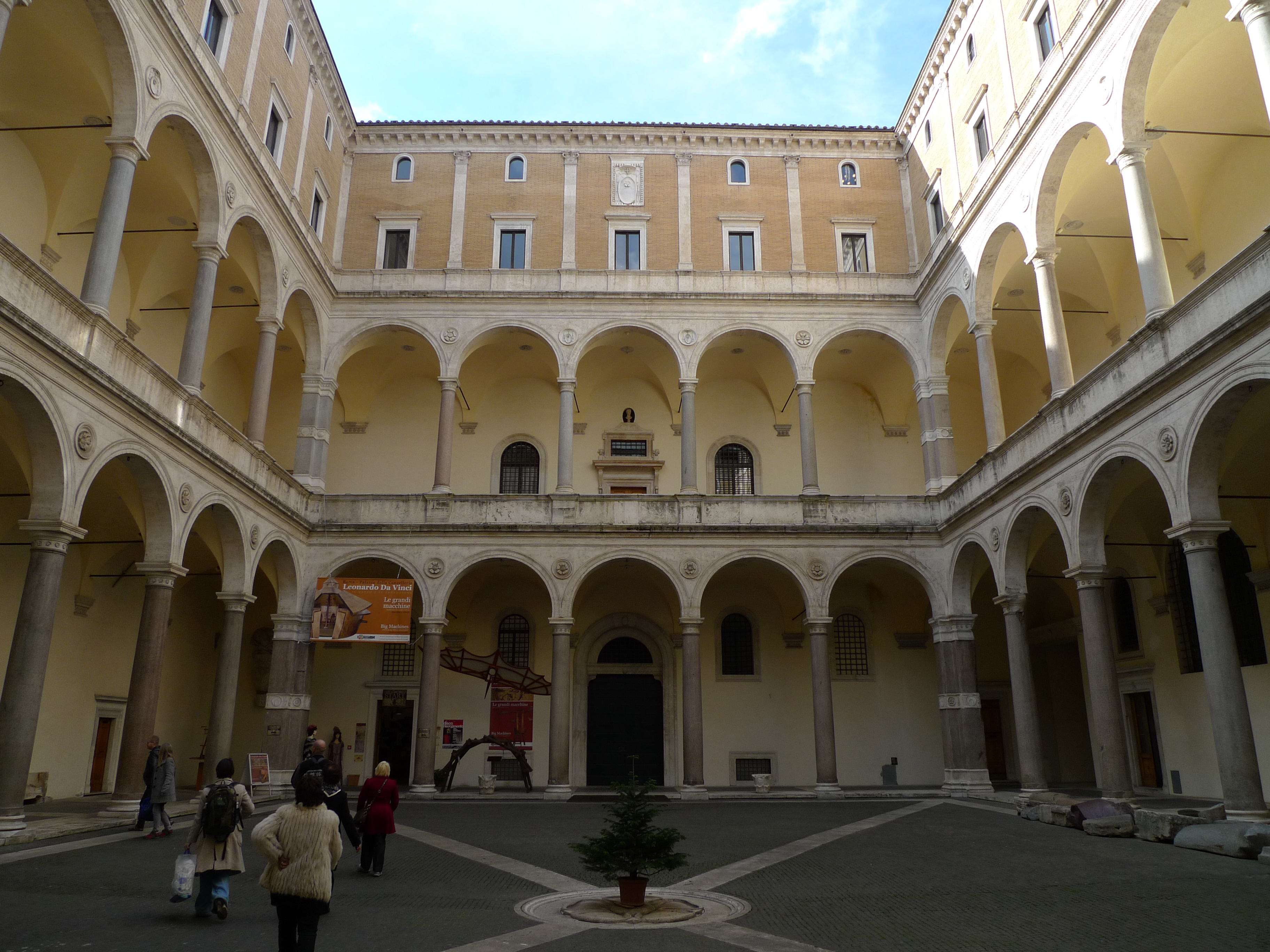 Palazzo della Cancelleria (Rome)